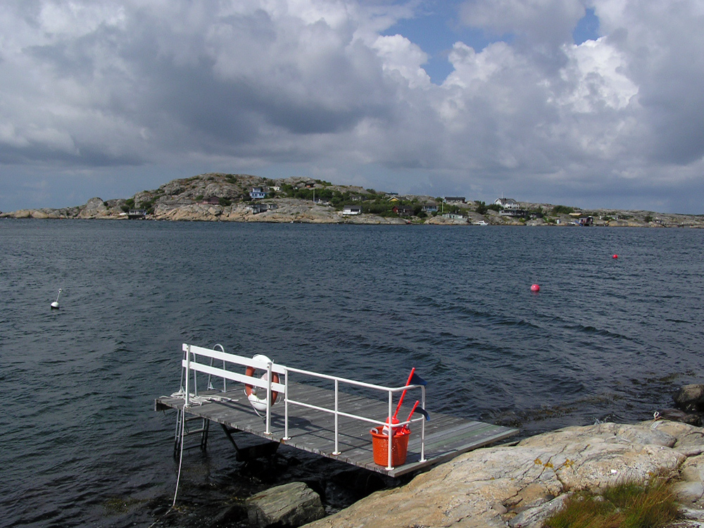 Sjumansholmen, one of the islands in the southern archipelago of Göteborg, sweden.